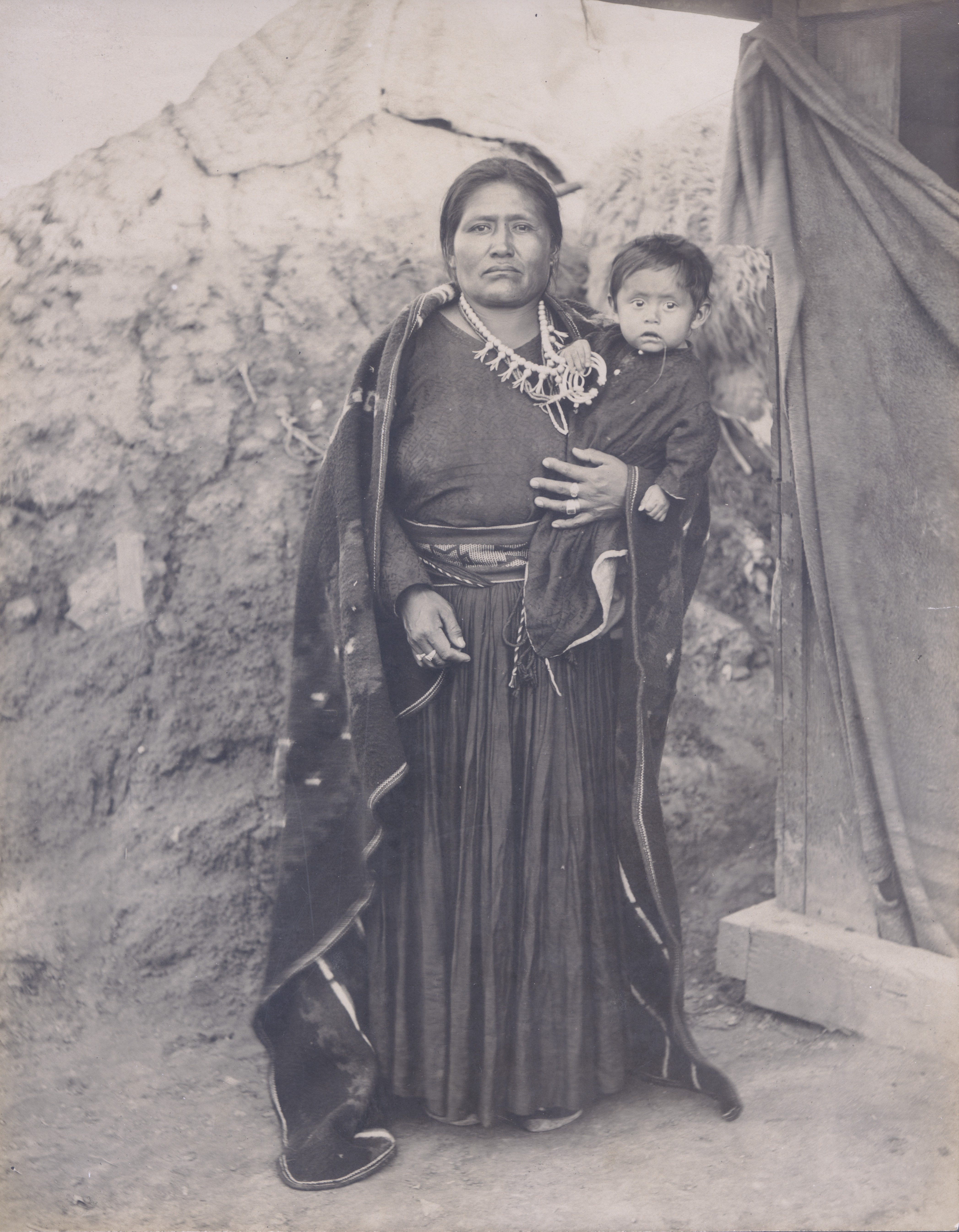 Title: "Navaho squaw (with child)." Department of Anthropology, 1904 World's Fair.